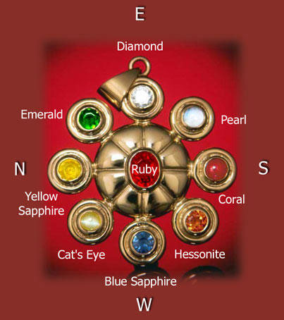 I created this and give to public domain